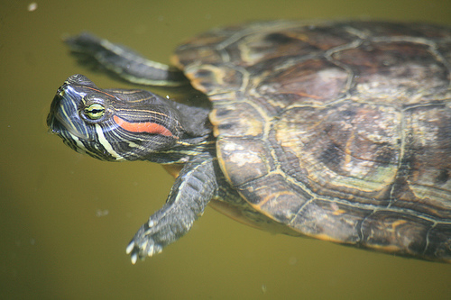 Red-eared turtle in a pond in Kowloon park